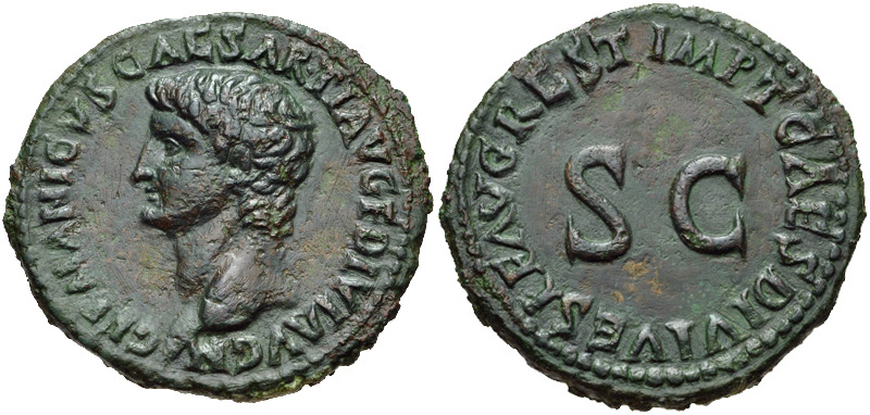 Germanicus. Died AD 19. Germanicus. Died AD 19. Æ As (27mm, 9.72 g, 1h). Rome mint. Restitution issue struck under Titus, AD 80-81. GERMANICVS CAESAR TI AVG F DIVI AVG N Bare head left IMP T CAES DIVI VESP F AVG REST Legend around large S C. RIC II 442 (Titus). VF, green and brown surfaces, smoothed, some roughness.